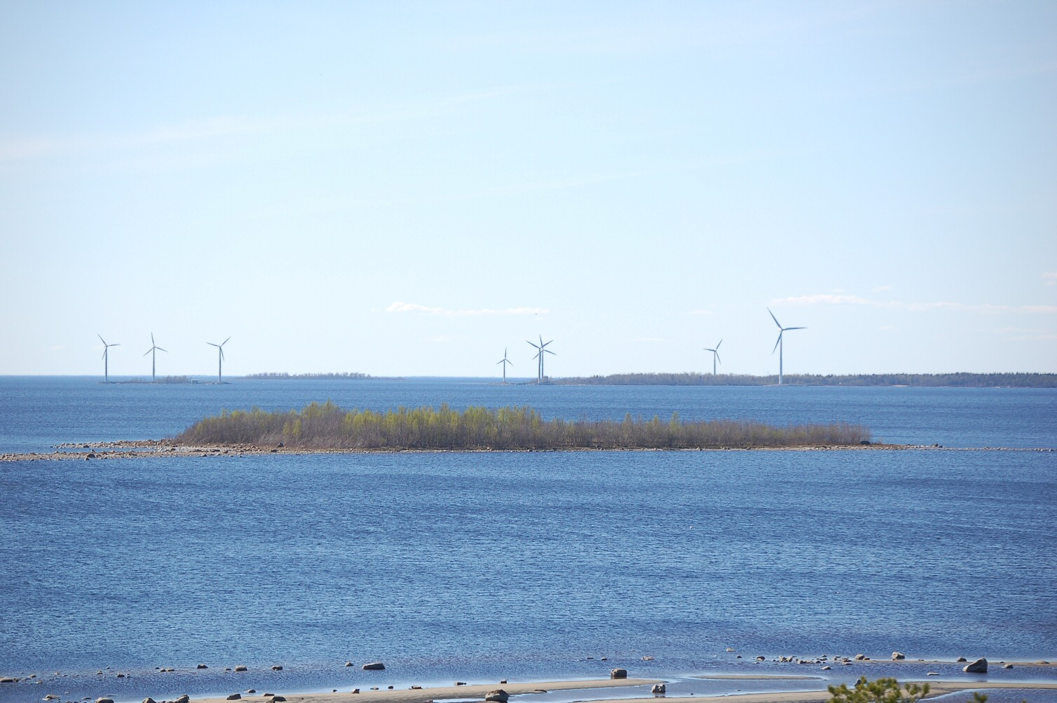 Vatunki wind farm in Kuivaniemi, Ii municipality, Finland, with the island of Onsajanmatala in the foreground. Photographed from Merihelmi bird watching tower, 7 km away. The three leftmost wind generators stand on the island of Kuivamatala.